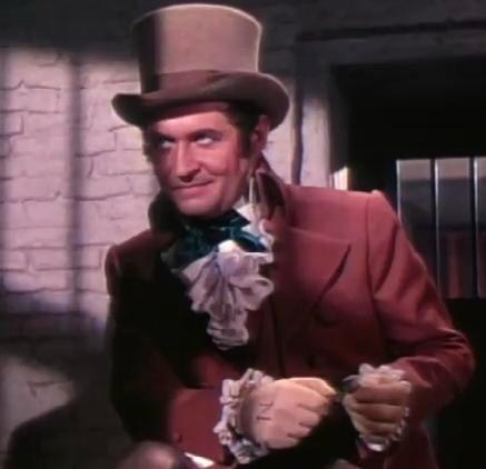 Robert Douglas in Buccaneer's Girl - trailer (cropped screenshot)